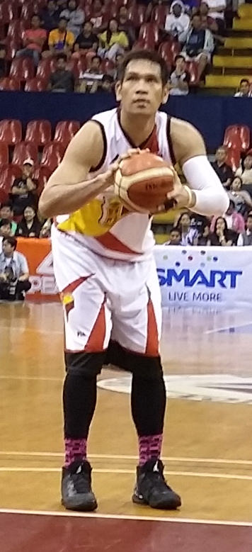 June Mar Fajardo taking a free throw during a San Miguel-Blackwater game at the PhilSports Arena.